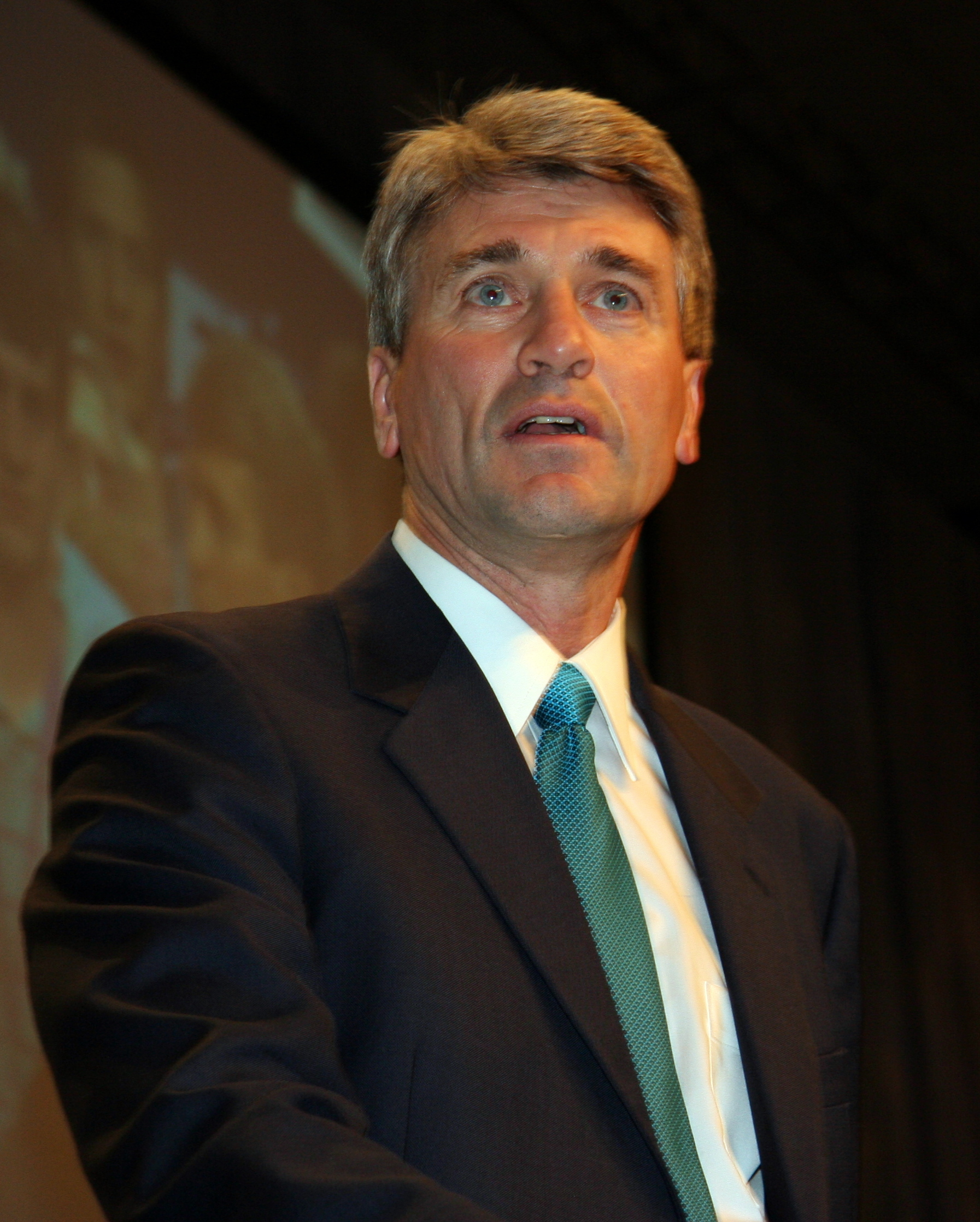 Minneapolis Mayor R. T. Rybak about to address the DFL State Convention in Duluth at the end of his campaign for governor of Minnesota in 2010